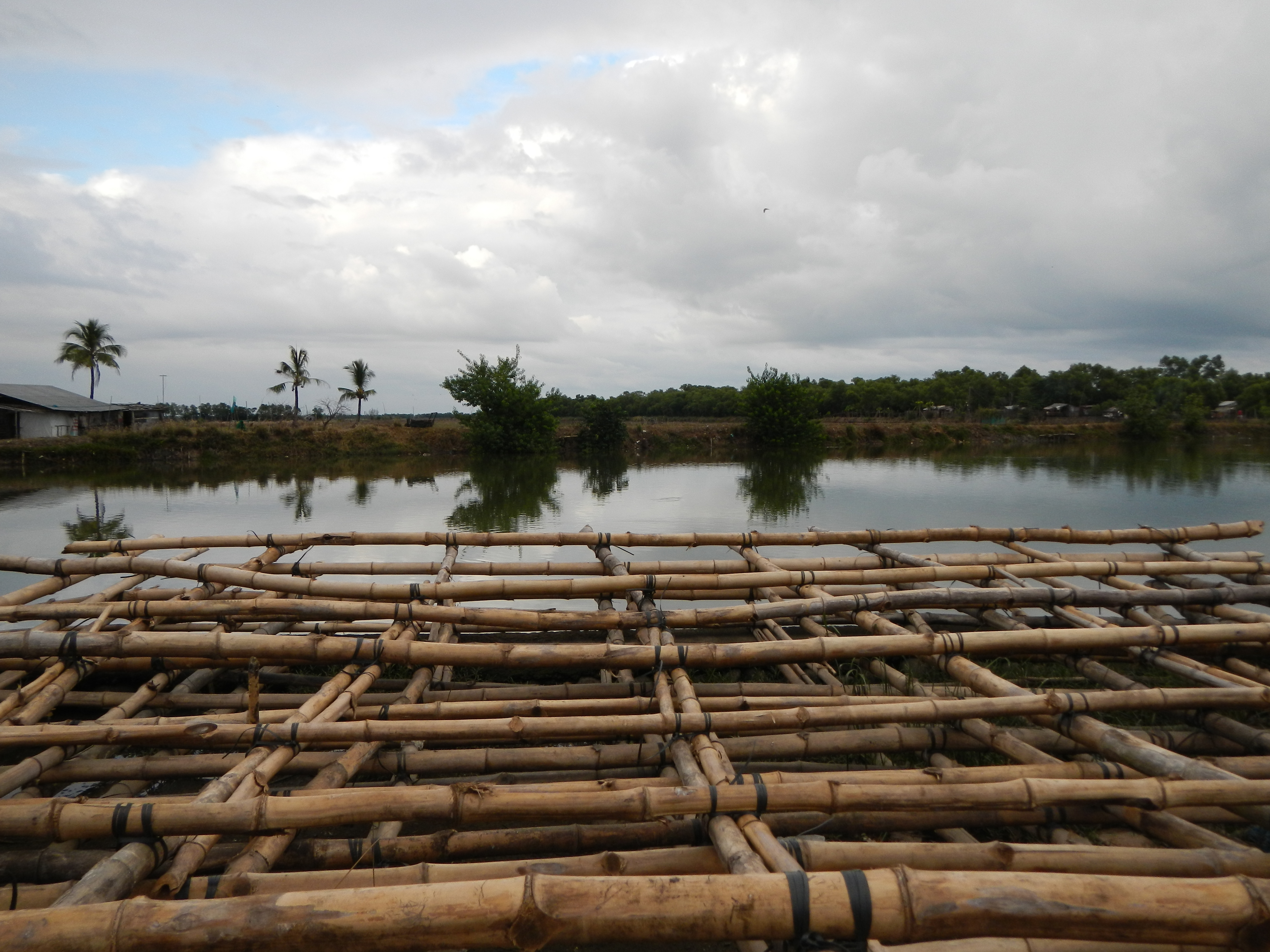 Abucay, Bataan[1][2][3]Coordinates: 14°43'34"N 120°28'10"E Bamboos for mussel culture, breeding and propagation